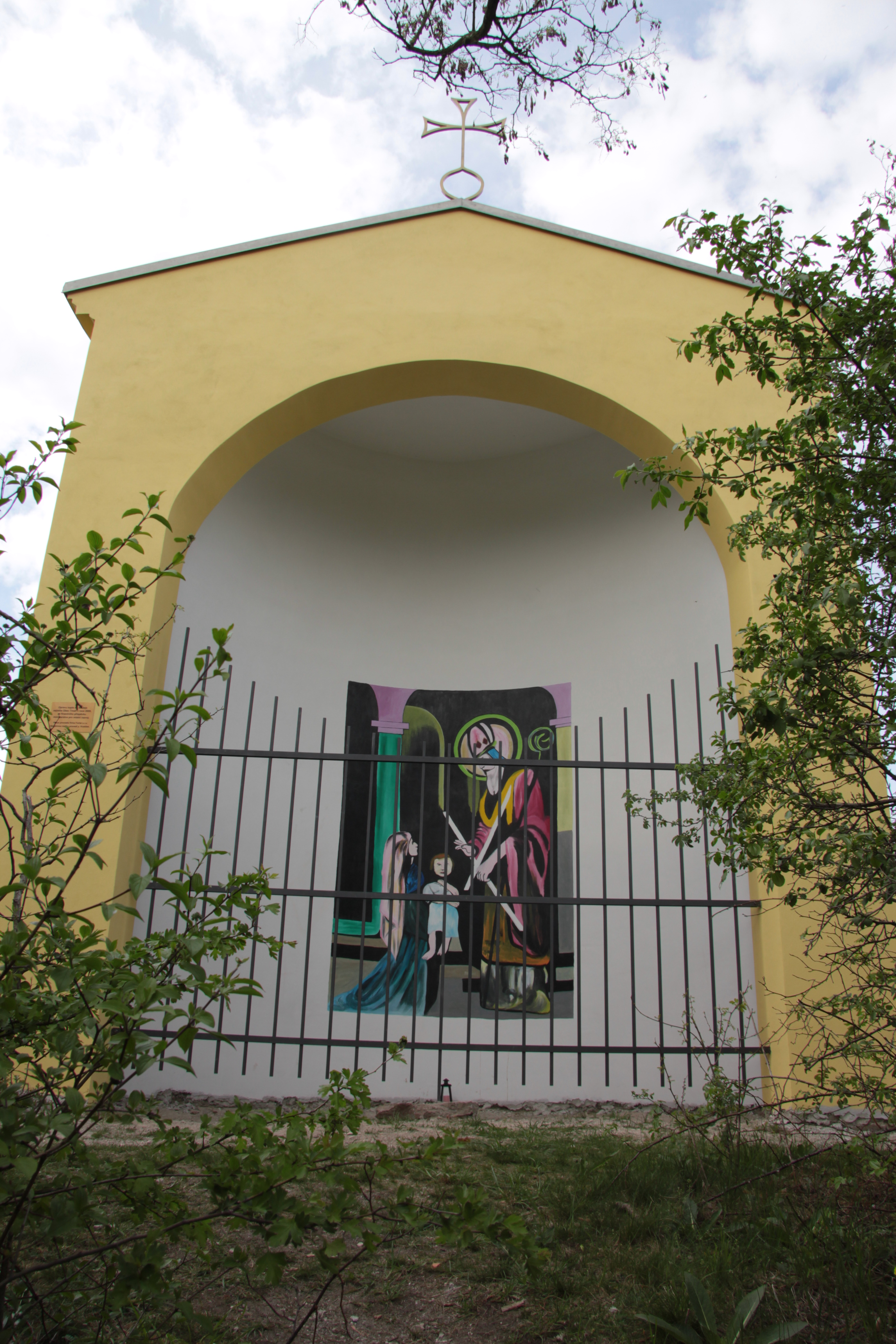 Renovated chapel on Koukol's hill - frontview.